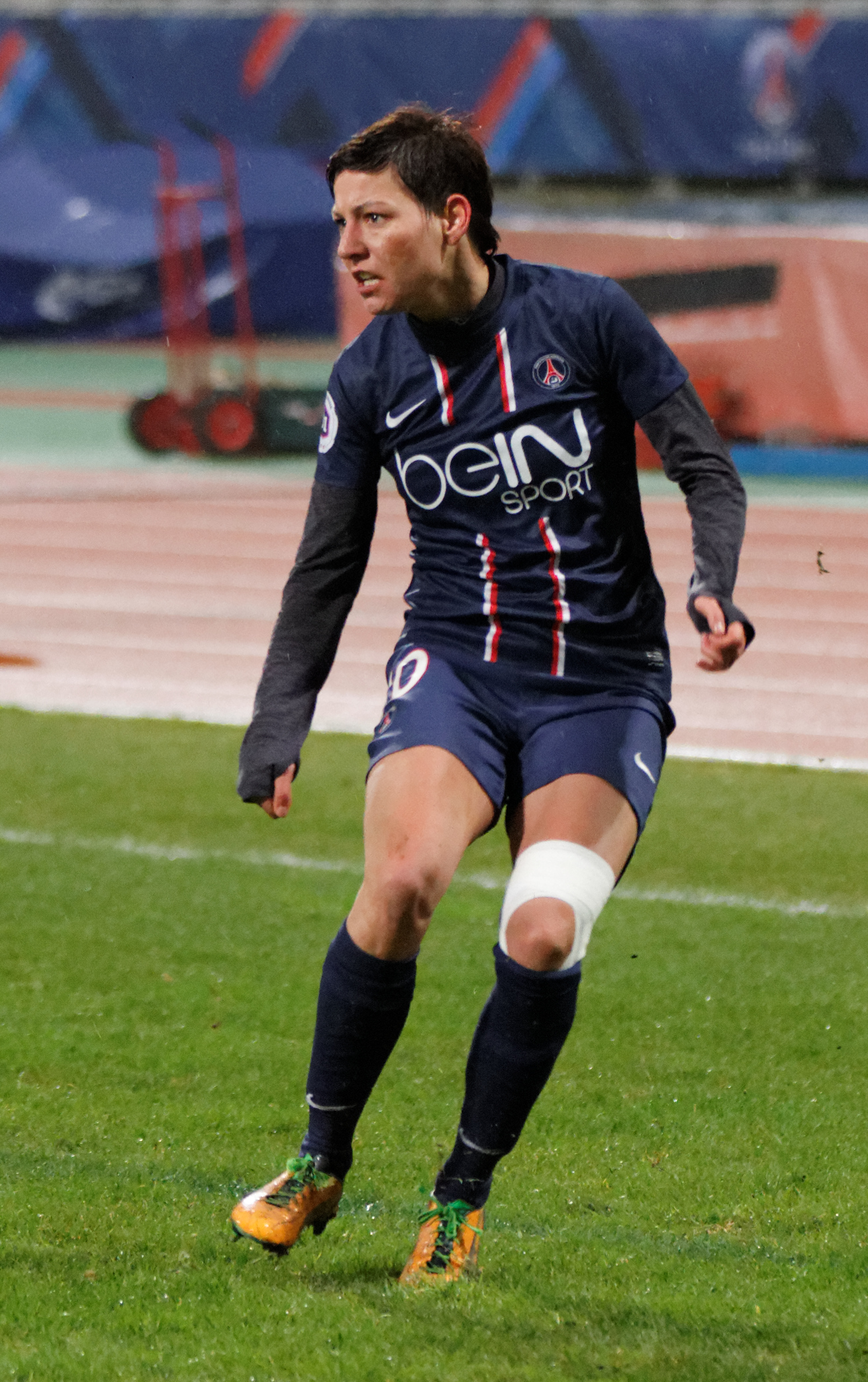 PSG-Montpellier, January 13th, 2013.